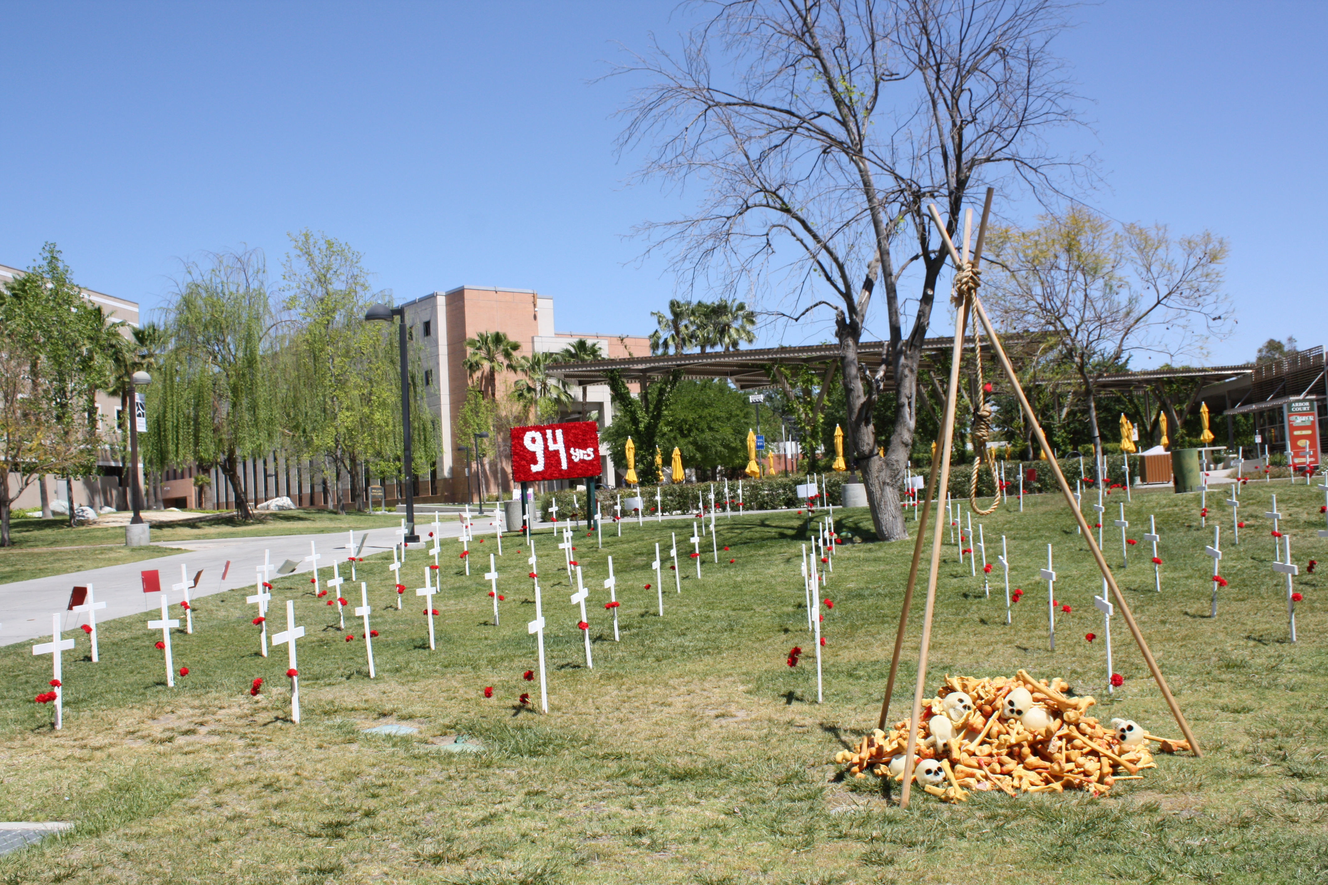 A temporary memorial to the Armenian Genocide at California State University, Northridge for the 94th anniversary of the Armenian Genocide.